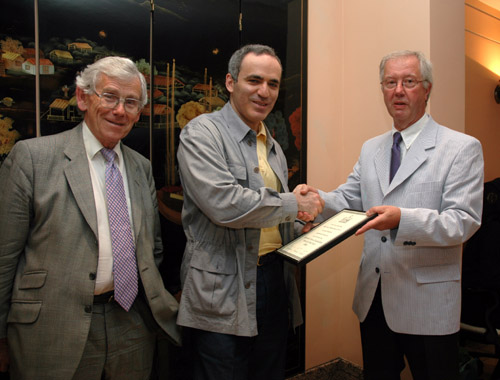 Garry Kasparov